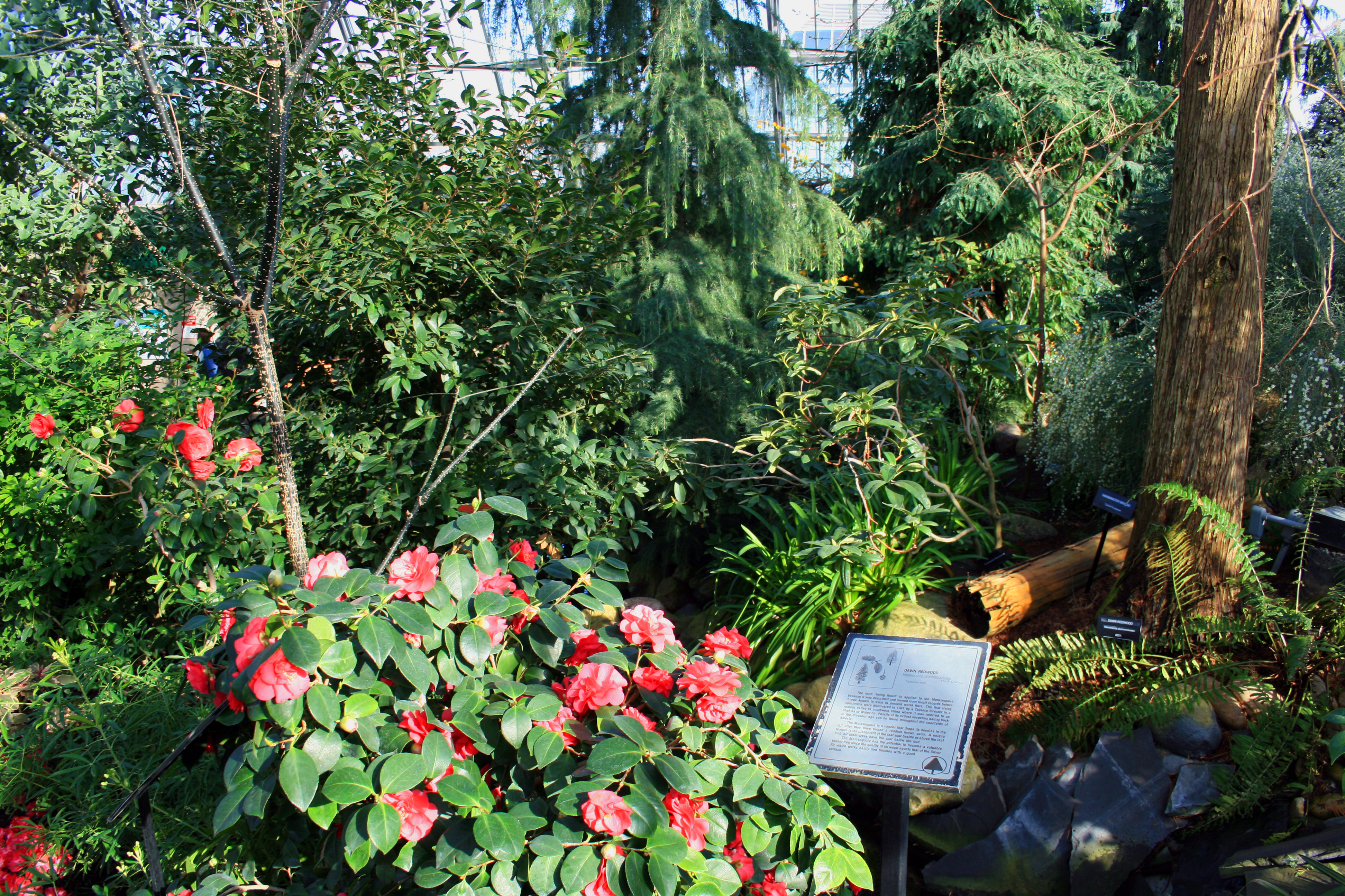 Various types of trees and shrubs of tropics